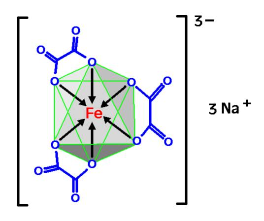 Structure of Sodium TrisoxalatoferrateIII done on Microsoft Paint and processed with Photosuite-4.